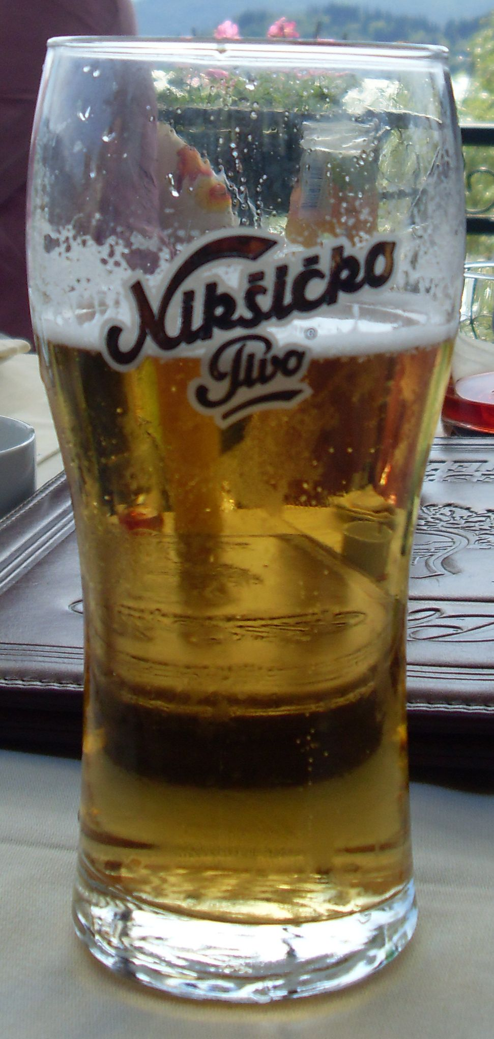 Famous Montenegrin beer Nikšicko Pivo